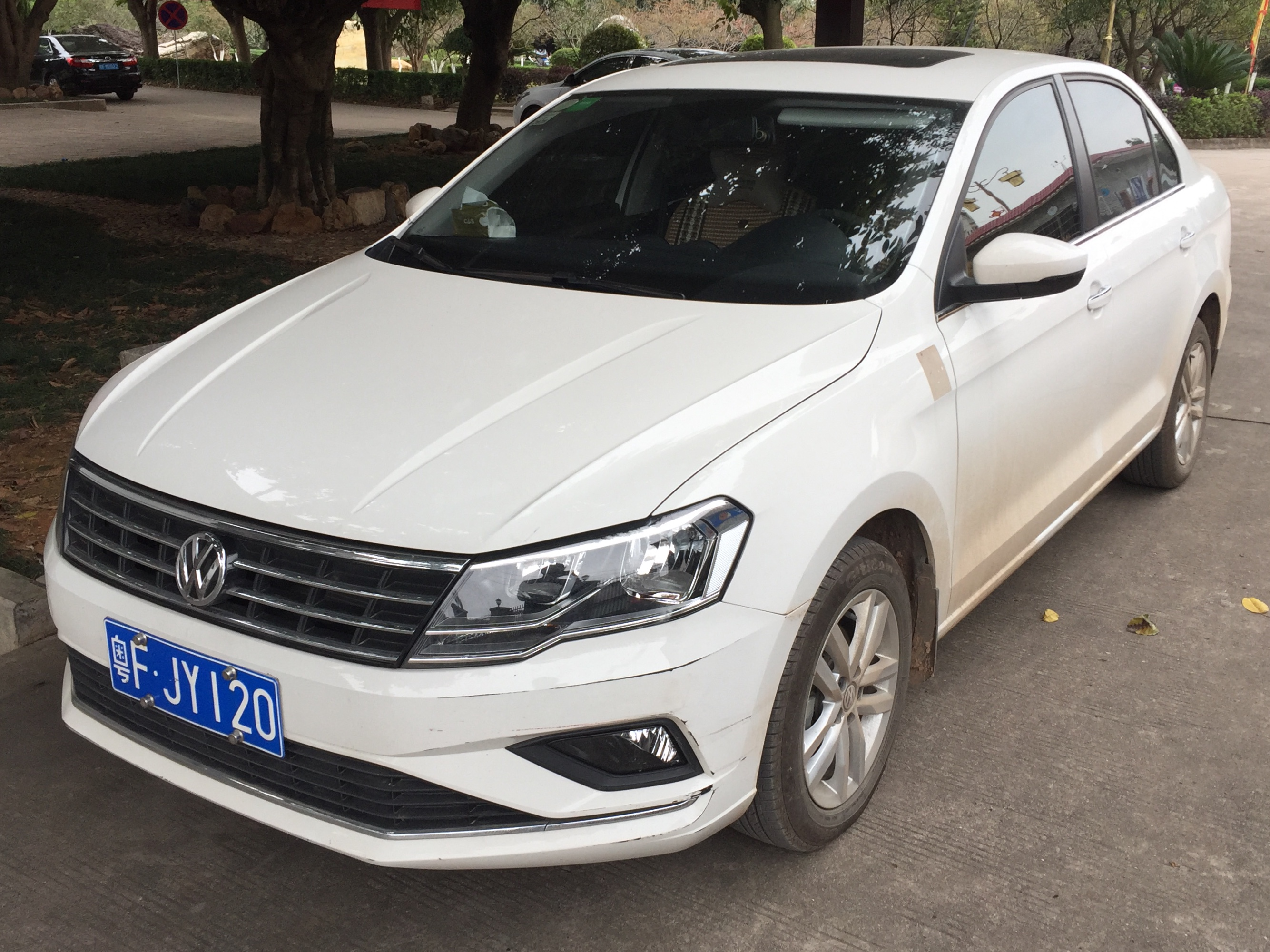 A FAW-Volkswagen Jetta II (facelift). Taken in Nanxiong, Guangdong province, China